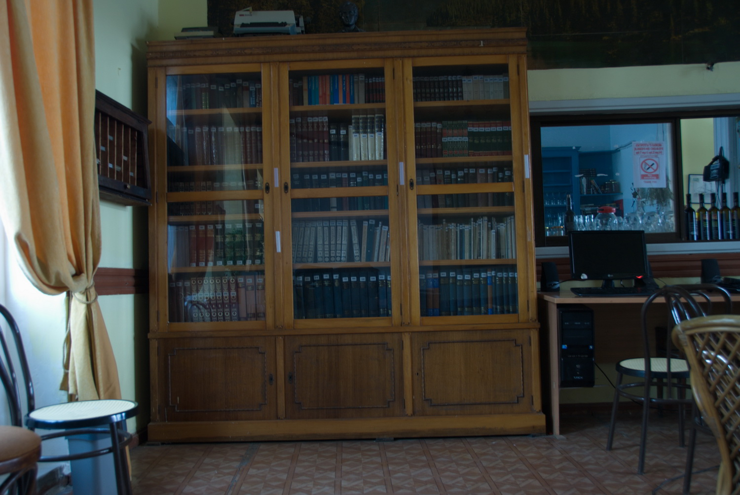 Veniamin Lesvios club building